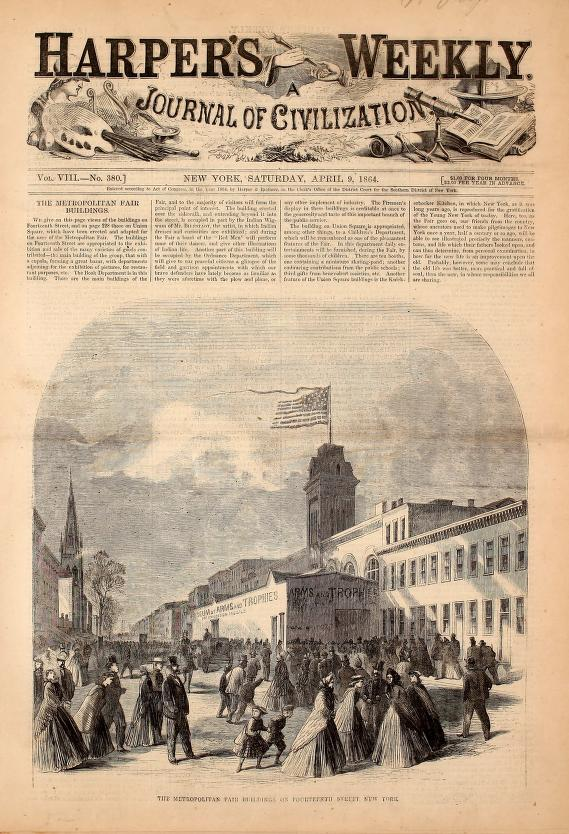 Picture shows The Metropolitan Fair Buildings on Fourteenth Street New York from Harper's Weekly.